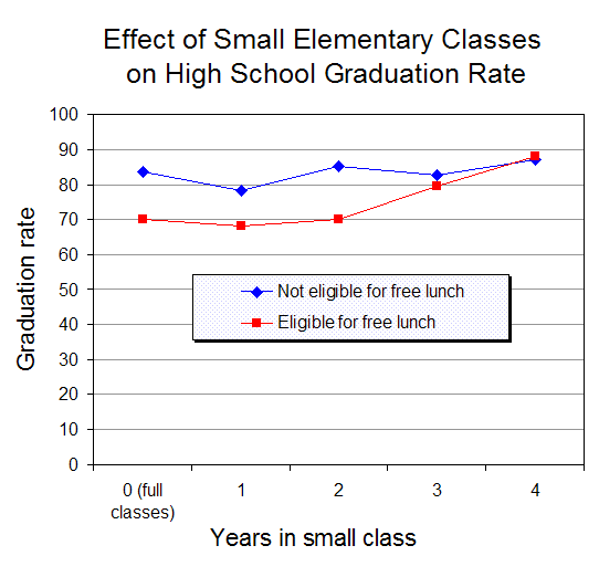 Finn, Gerber, & Boyd-Zaharias (2005) analysed data from 4,948 participants in Tennessee’s class-size experiment, Project STAR. The analysis showed that attending small classes (13 to 17 students) for 3 or more years in the early grades increased the likelihood of graduating from high school, especially among students eligible for free lunch. They also found that attending small classes was linked to greater math and reading achievement. Finn, J. D., Gerber, S. B., Boyd-Zaharias, J. (2005). Small Classes in the early grades, academic achievement, and graduating from high school. Journal of Educational Psychology, 97,214-233.